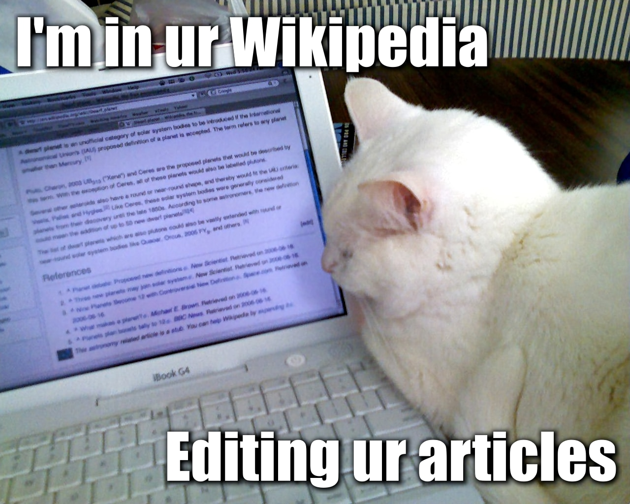 Lolcat or Cat Macro with white cat on laptop computer displaying the Wikipedia article Dwarf planet.